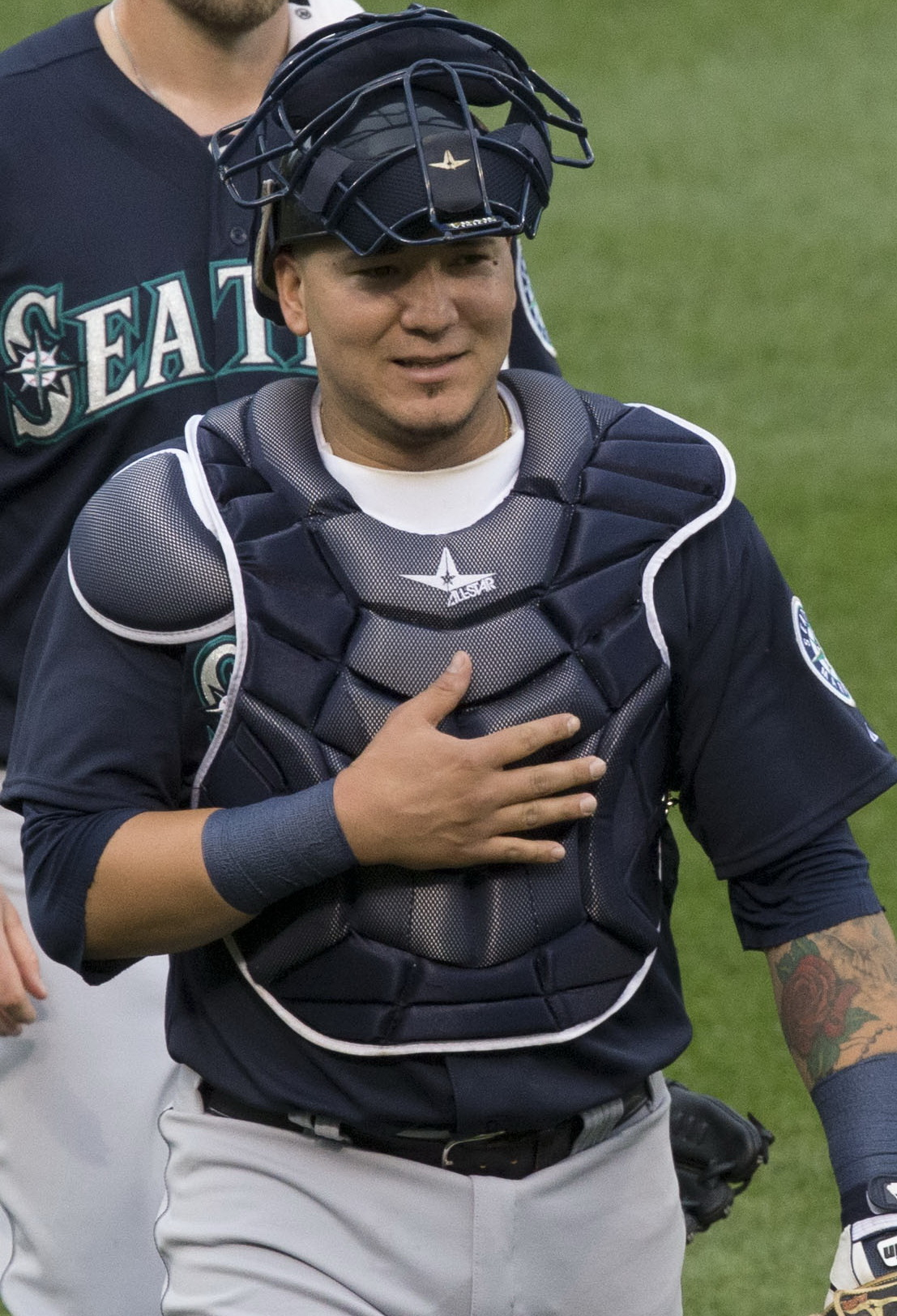 Jesus Sucre in 2014.